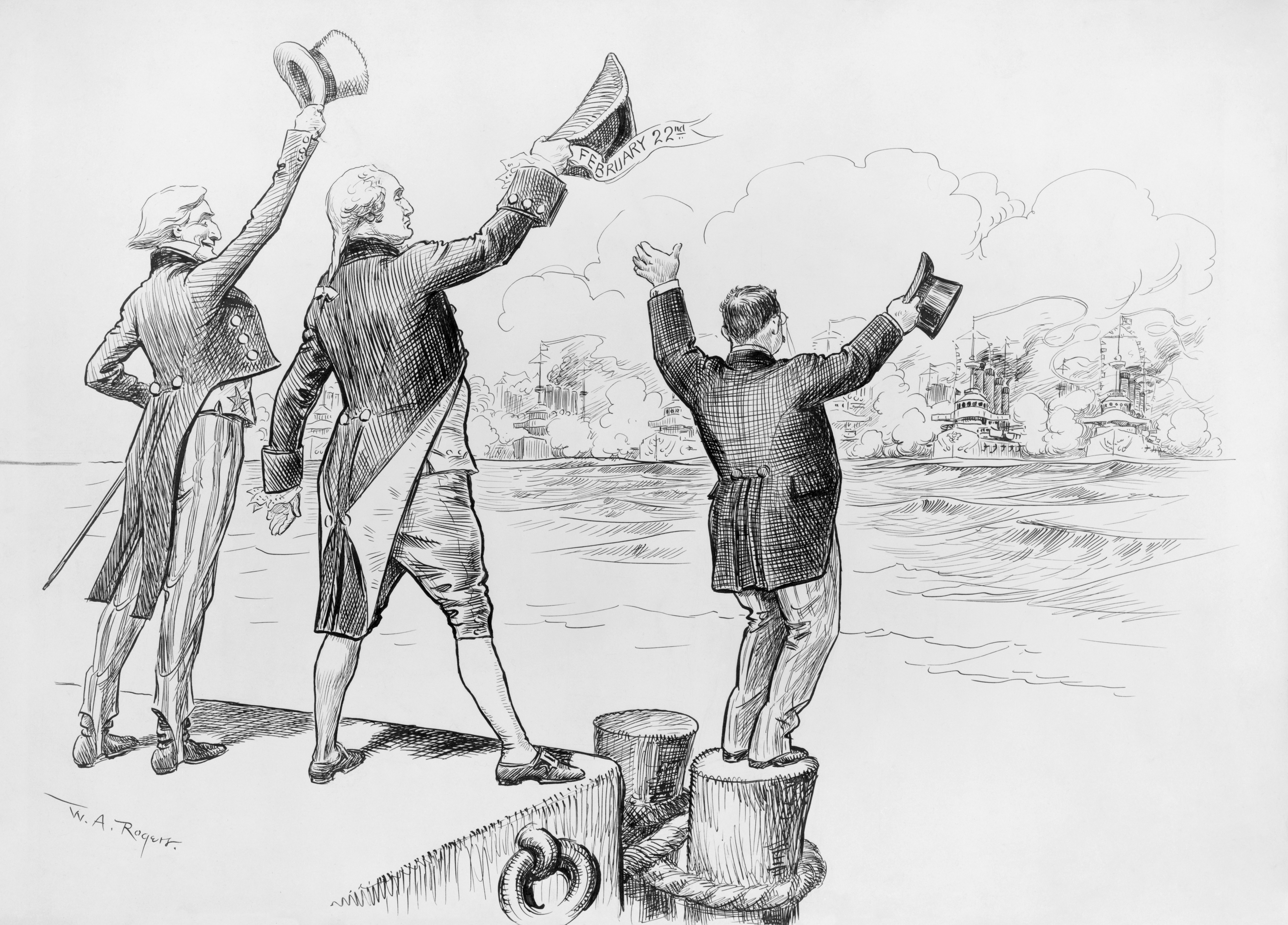 "Welcome home!" Political cartoon noting the return of the Great White Fleet to its home port at Hampton Roads, Virginia after a two year world tour, with caricatures of Uncle Sam, George Washington, and Theodore Roosevelt. Pen and ink drawing, ran on Page 4 of the New York Herald, February 22, 1909.